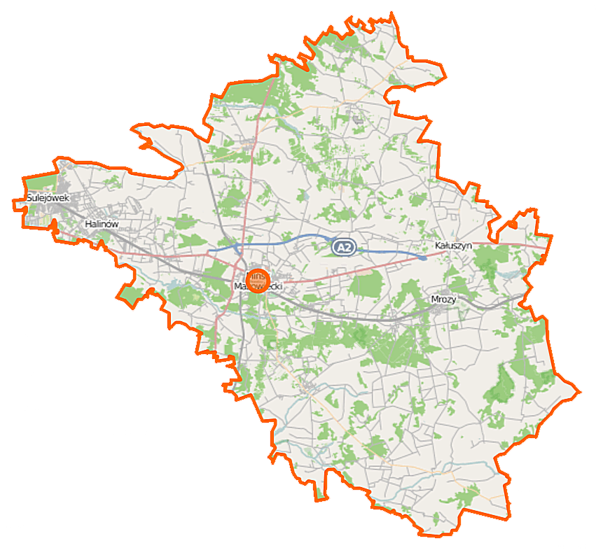 Map of Powiat miński, Poland This map of Powiat miński was created from OpenStreetMap project data, collected by the community. This map may be incomplete, and may contain errors. Don't rely solely on it for navigation. Border coordinates52.404921.2201←↕→22.000151.9629